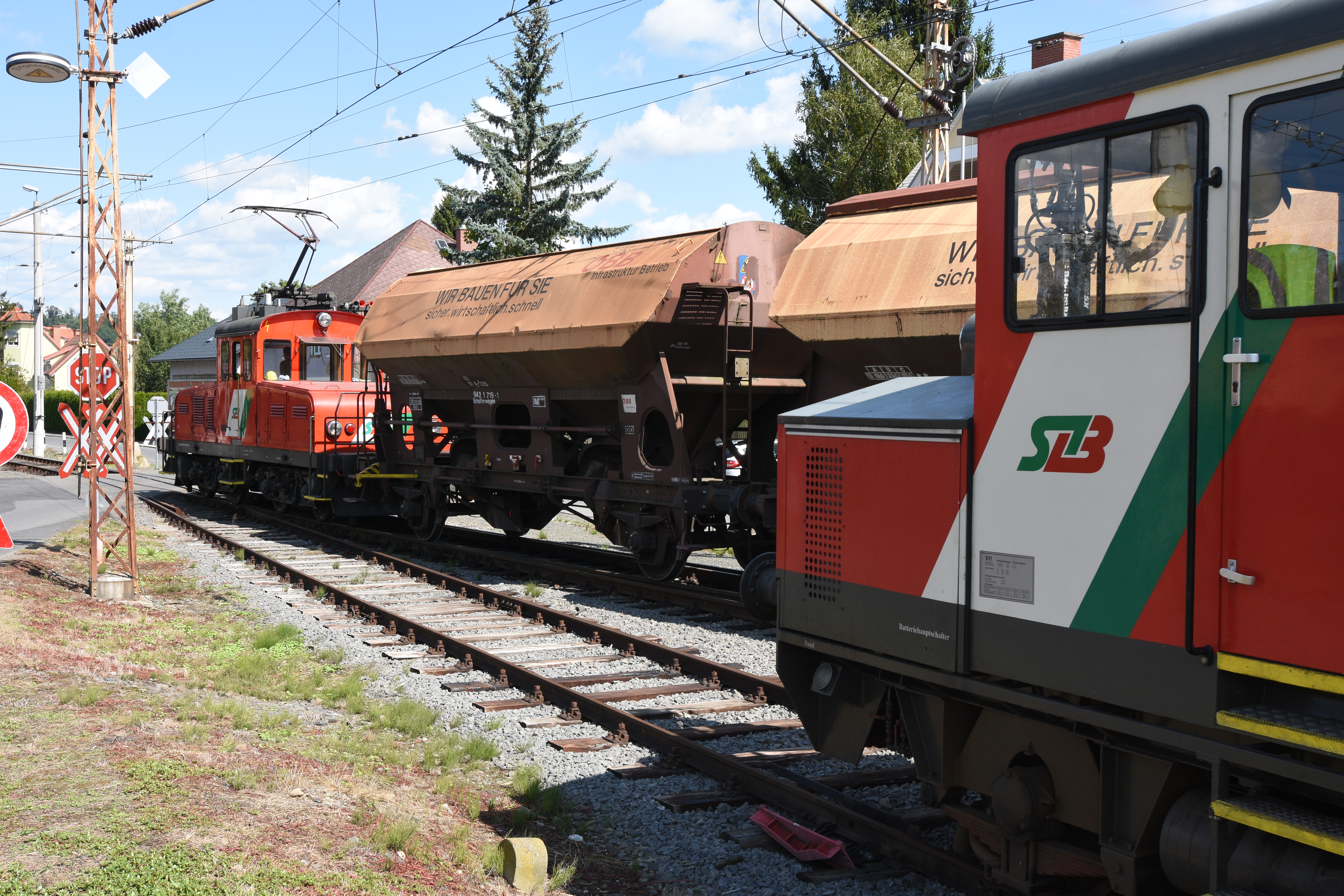 Feldbach–Bad Gleichenberg railway line